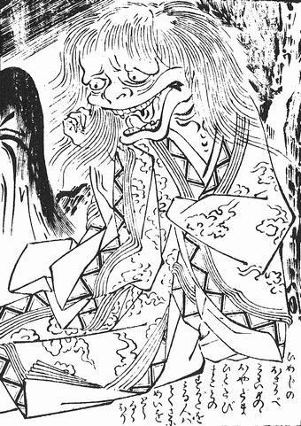 Osakabe-hime from the Bakemonochakutōchō